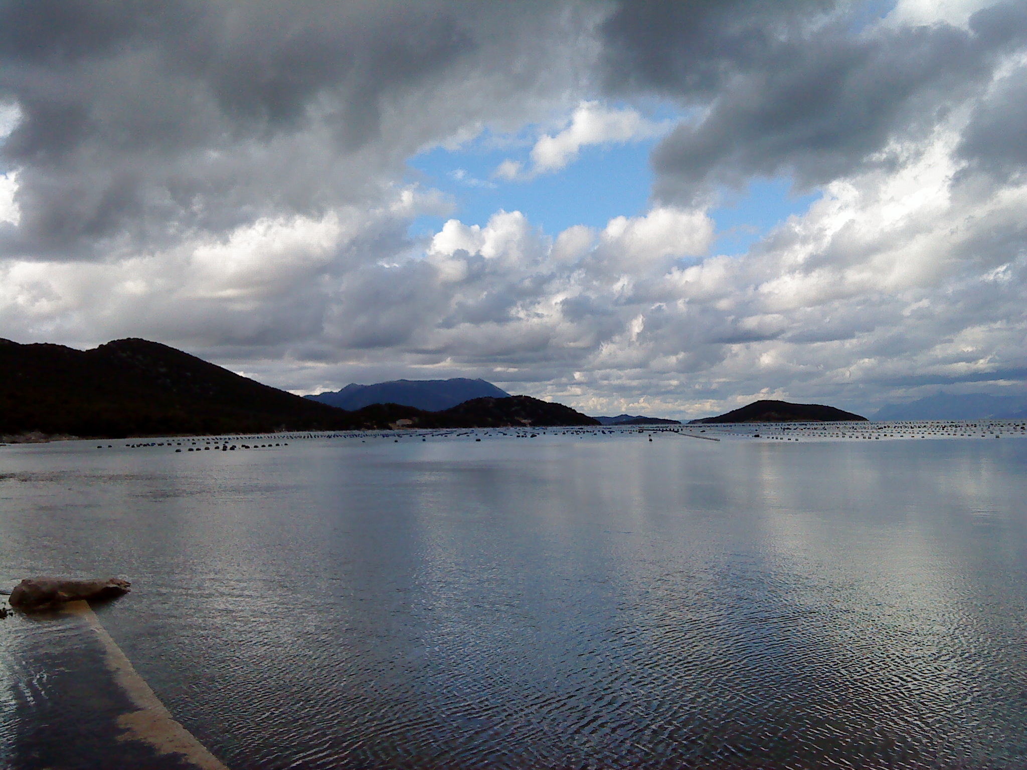 Village of Brijesta, Ston municipality